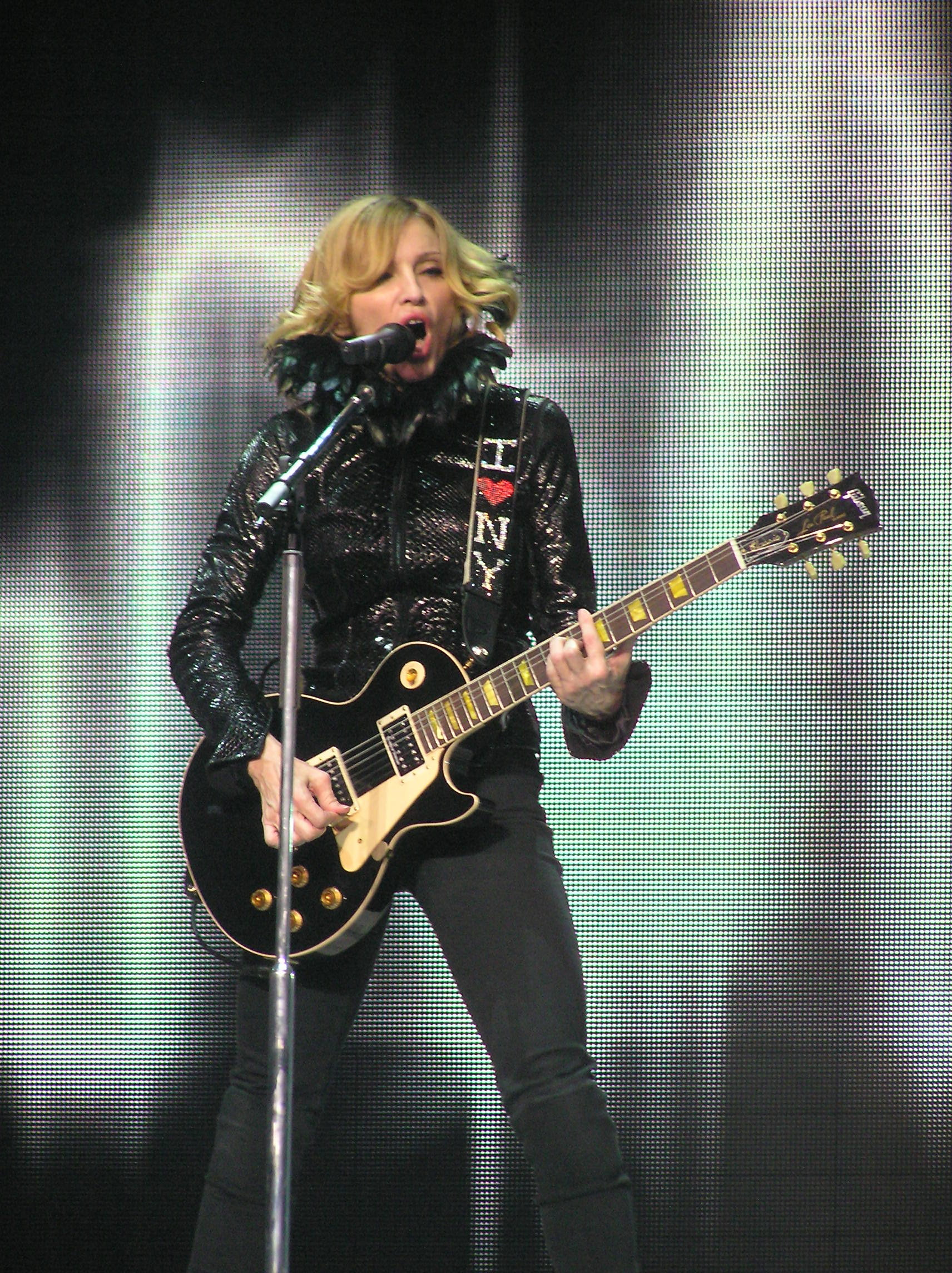 Madonna concert in Fresno